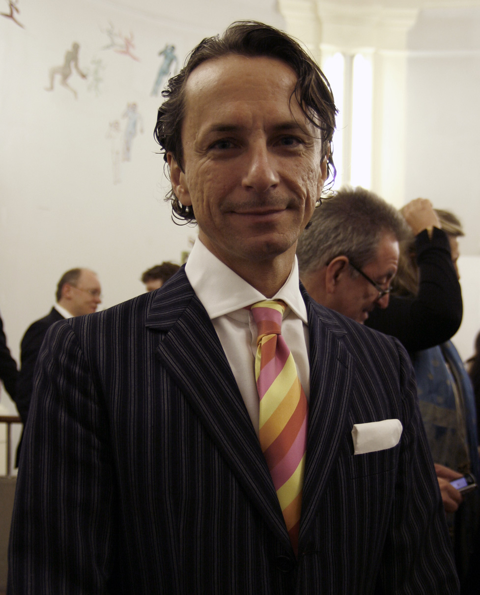 Publisher Christian Rainer at the Nestroy-Theaterpreis (Etablissement Ronacher, Vienna)